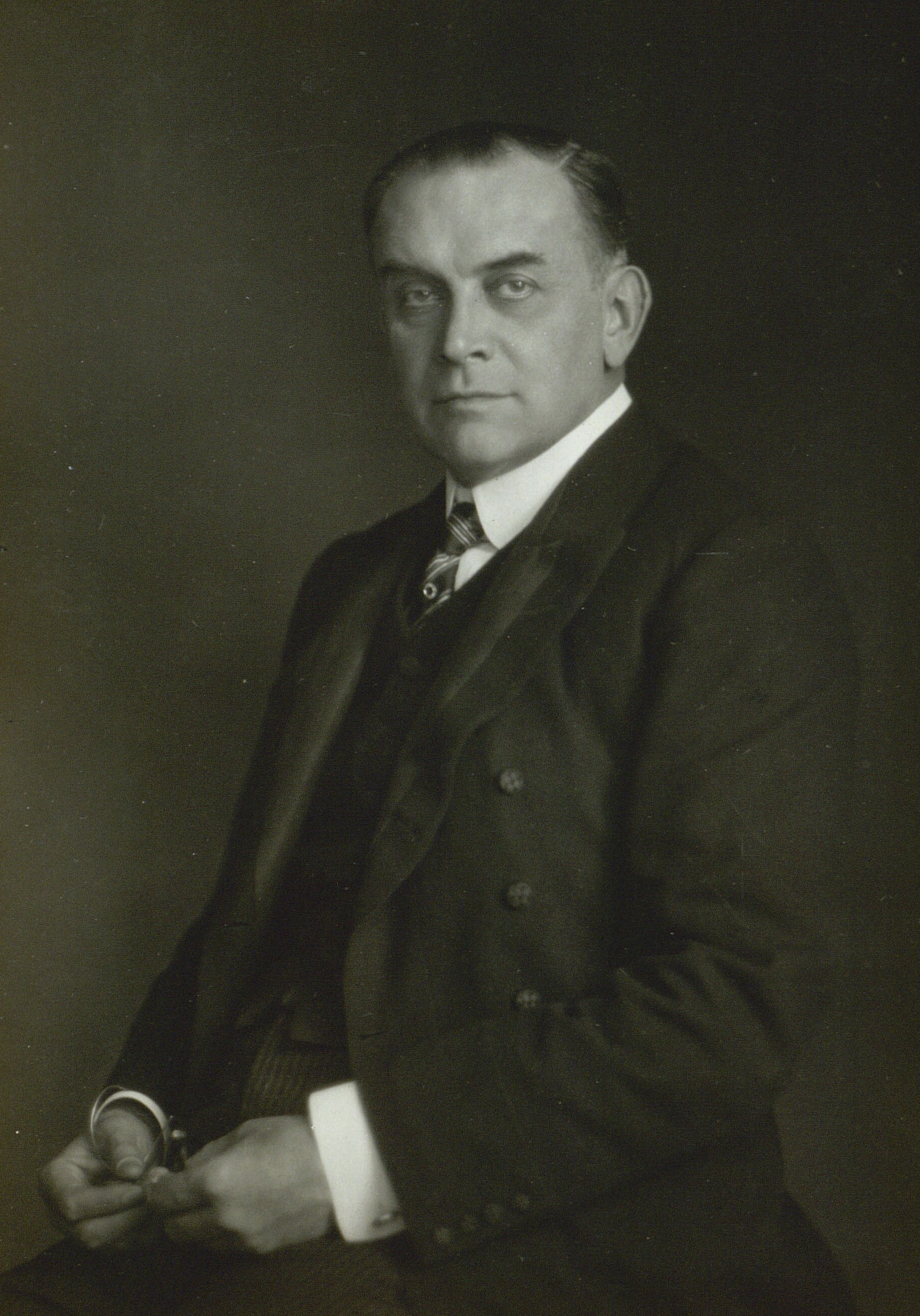 Carl Poul Oscar Moltke (1869-1935), Danish Count, Foreign Minister, and diplomat